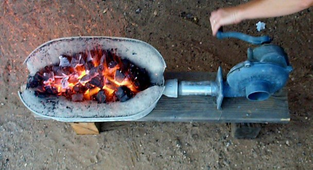 This is the Lively charcoal forge designed for bladesmiths by Knifemaker, Tim Lively.